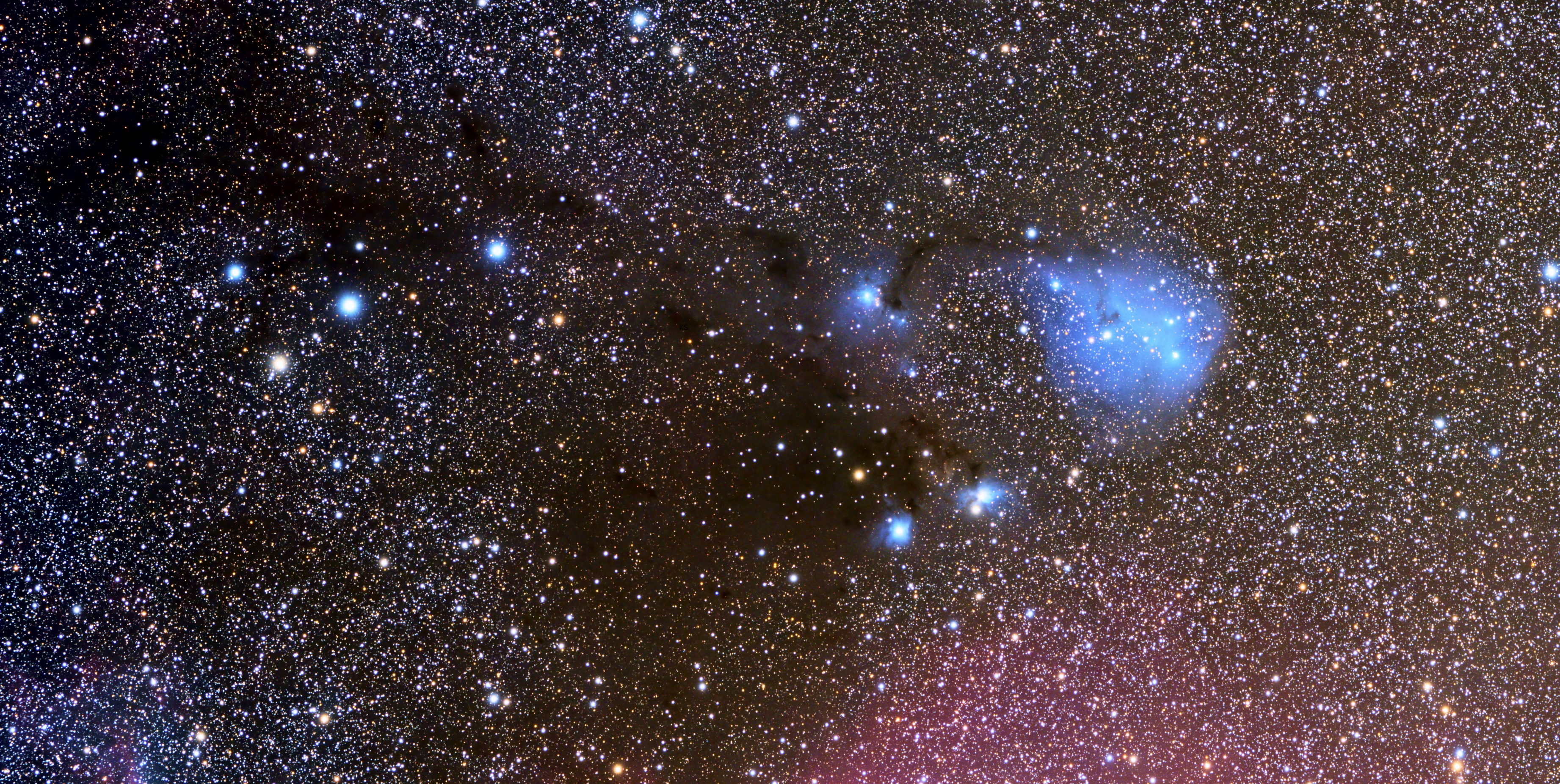 The same two objects [IC-446/IC-2167, and IC-447/IC-2169] were apparently discovered twice by Barnard.. Also in this image: NGC2245, NGC2247 and LDN1596. Image dates: 19,20,22,23 December 2016. 185x240 seconds iso1600. Esprit 100 f5.5 APO/Canon 6Da. Stacked in DeepSkyStacker with 33 Flatframes and 174 Bias frames. Processed in Pixinsight. Knight Observatory, Tomar